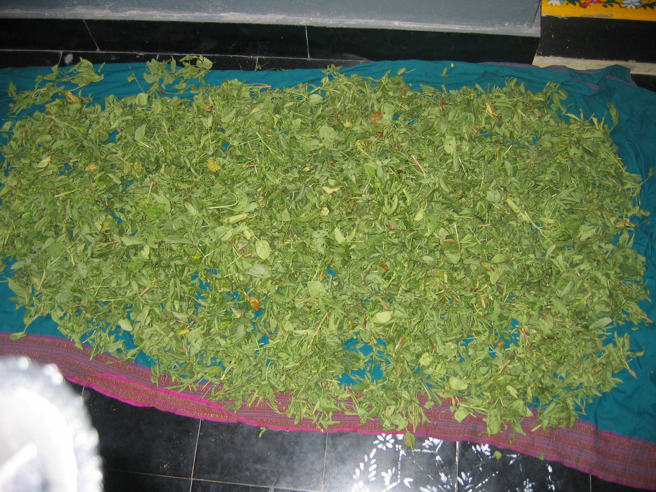 Dyring gongura leaves before making it into a pickle, which is very common in Guntur and other parts of Andhra Pradesh, India.